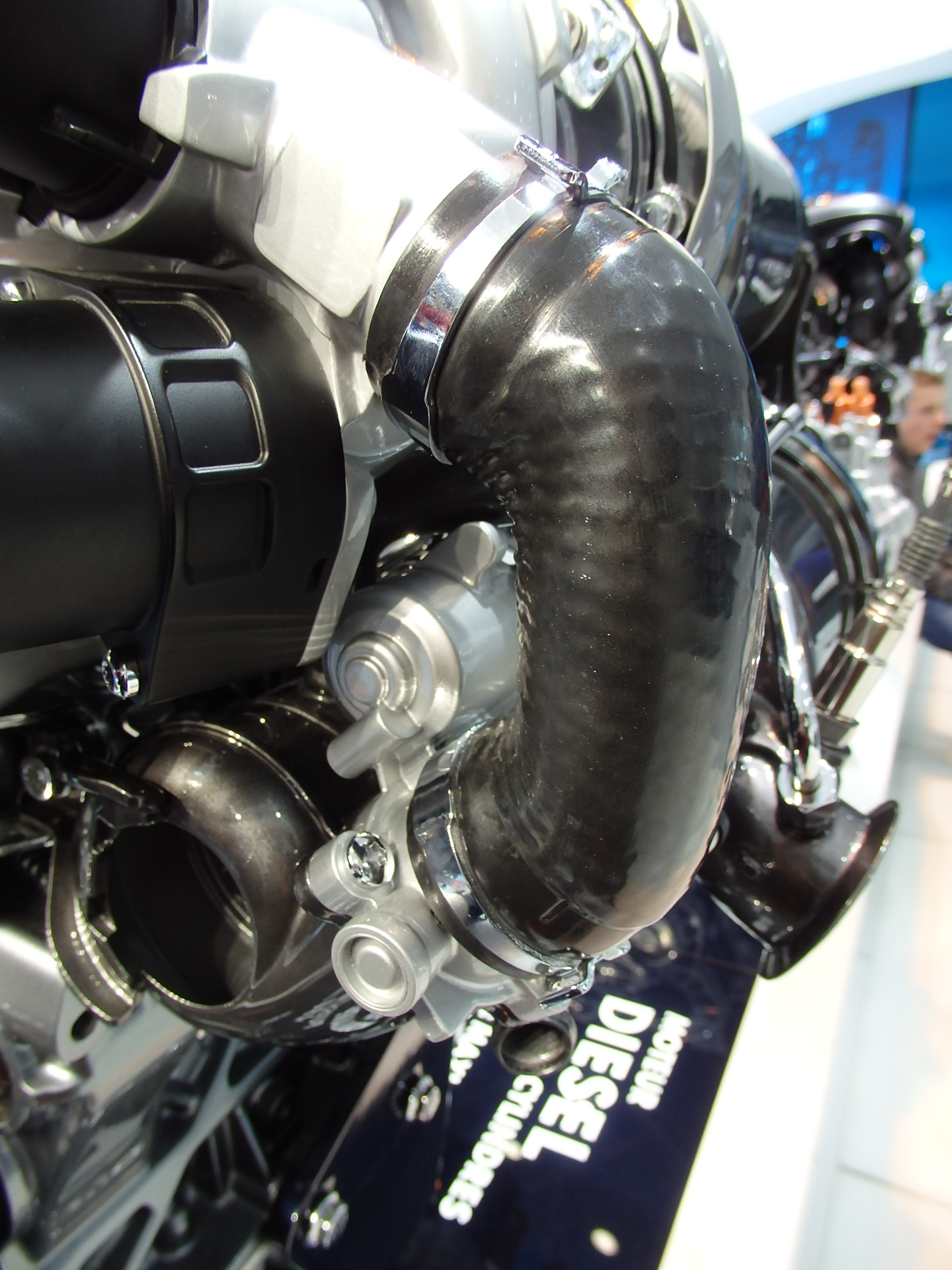 LPL-EGR system of Volkswagen 2.0 TDI